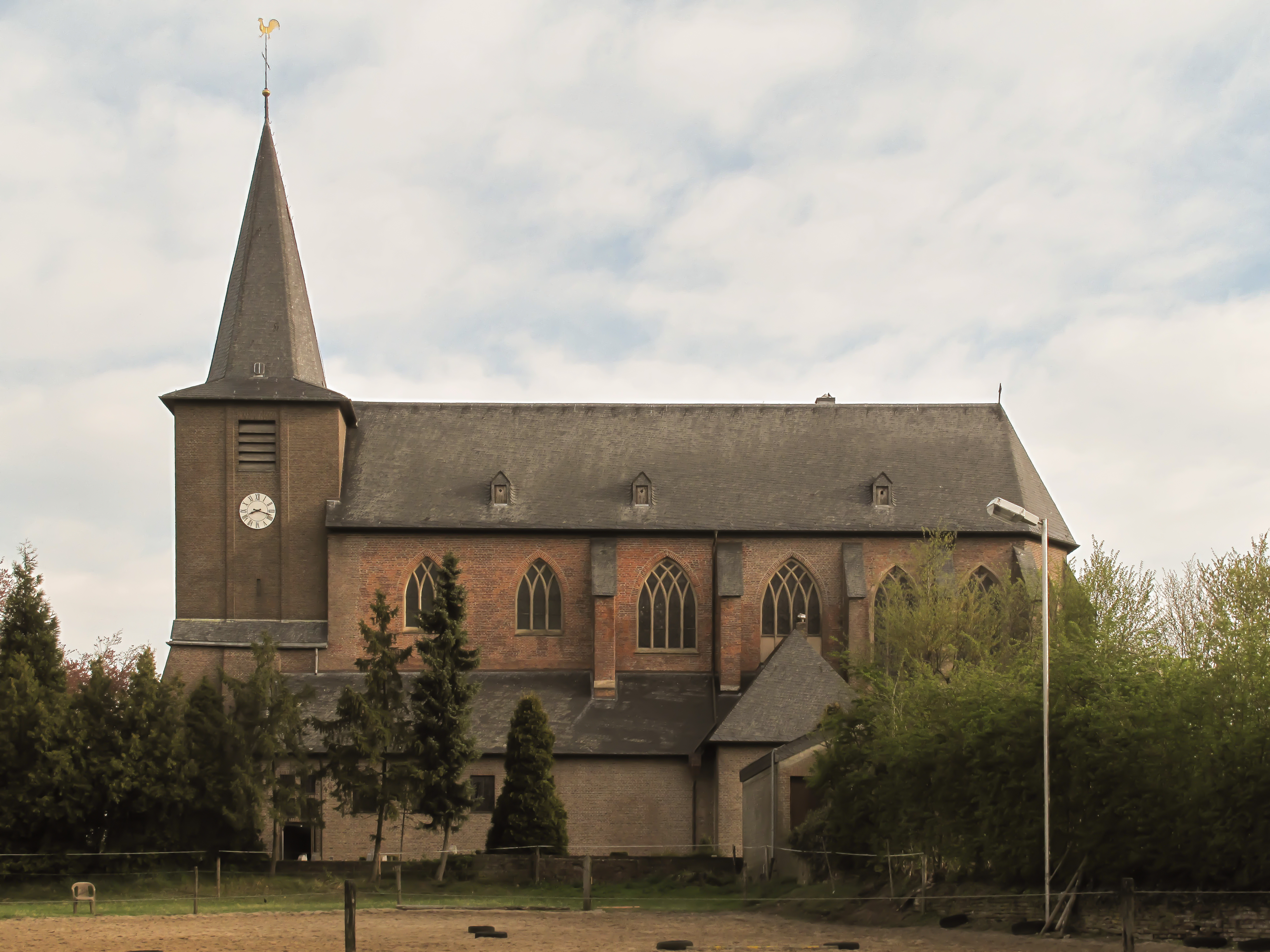 Zyfflich, church: die Sankt Martinuskirche